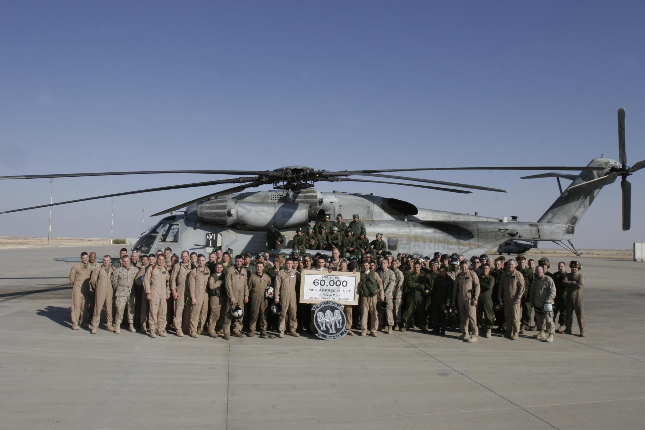 Wolfpack Marines gather around the CH-53E Super Stallion that landed at Al Asad, Iraq Feb. 18, marking the 60,000 hours of flight time since the squadron was established in November 1984. This landing also recorded the 60,000th hour of Class A mishap-free flight time for Marine Heavy Helicopter Squadron 466, Marine Aircraft Group 16, 3rd Marine Aircraft Wing. Photo by: Lance Cpl. Brandon L. Roach